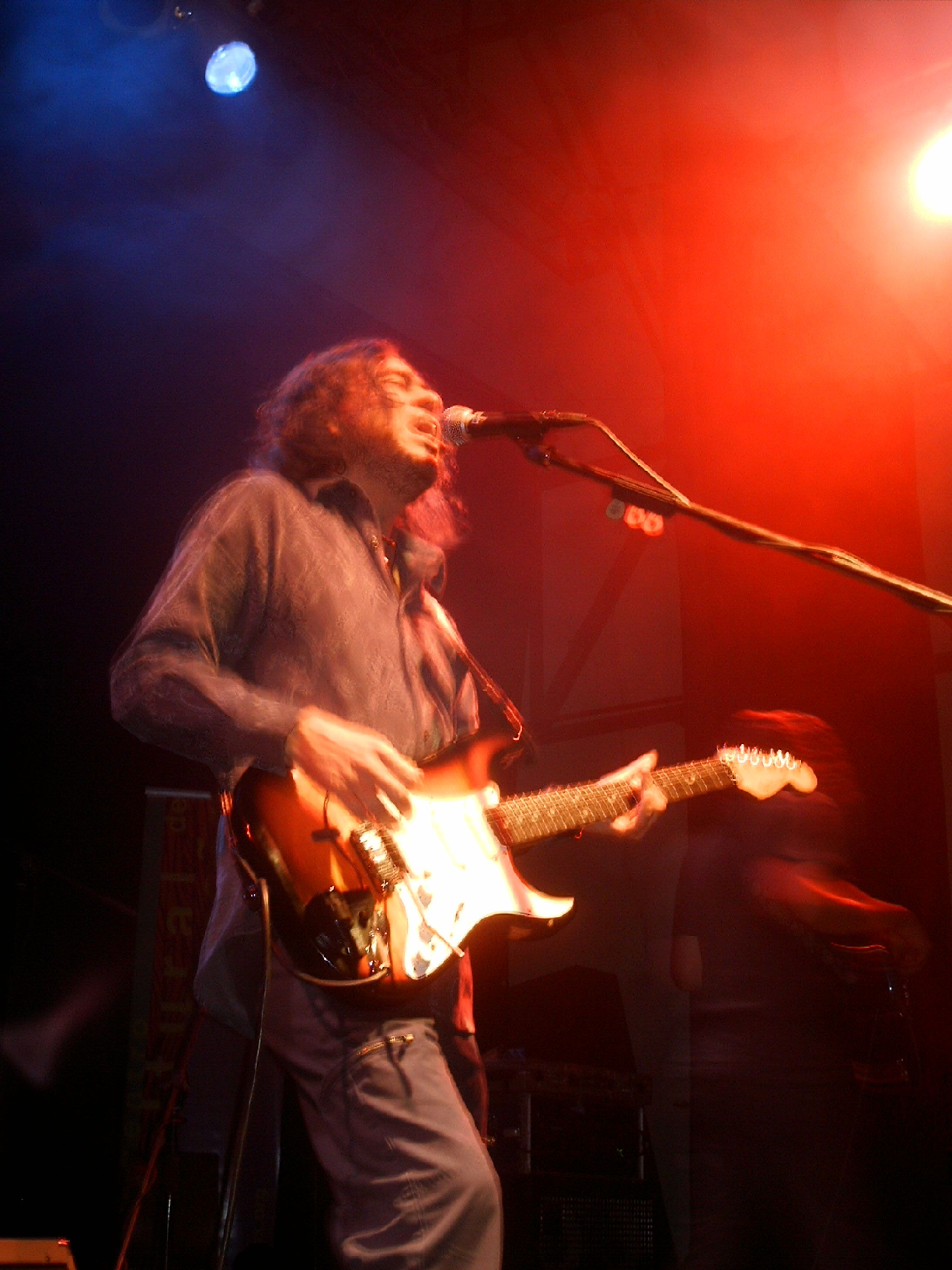 José Manuel Aguilera on stage from 'Centro Cultural España' El fluir tour 2004